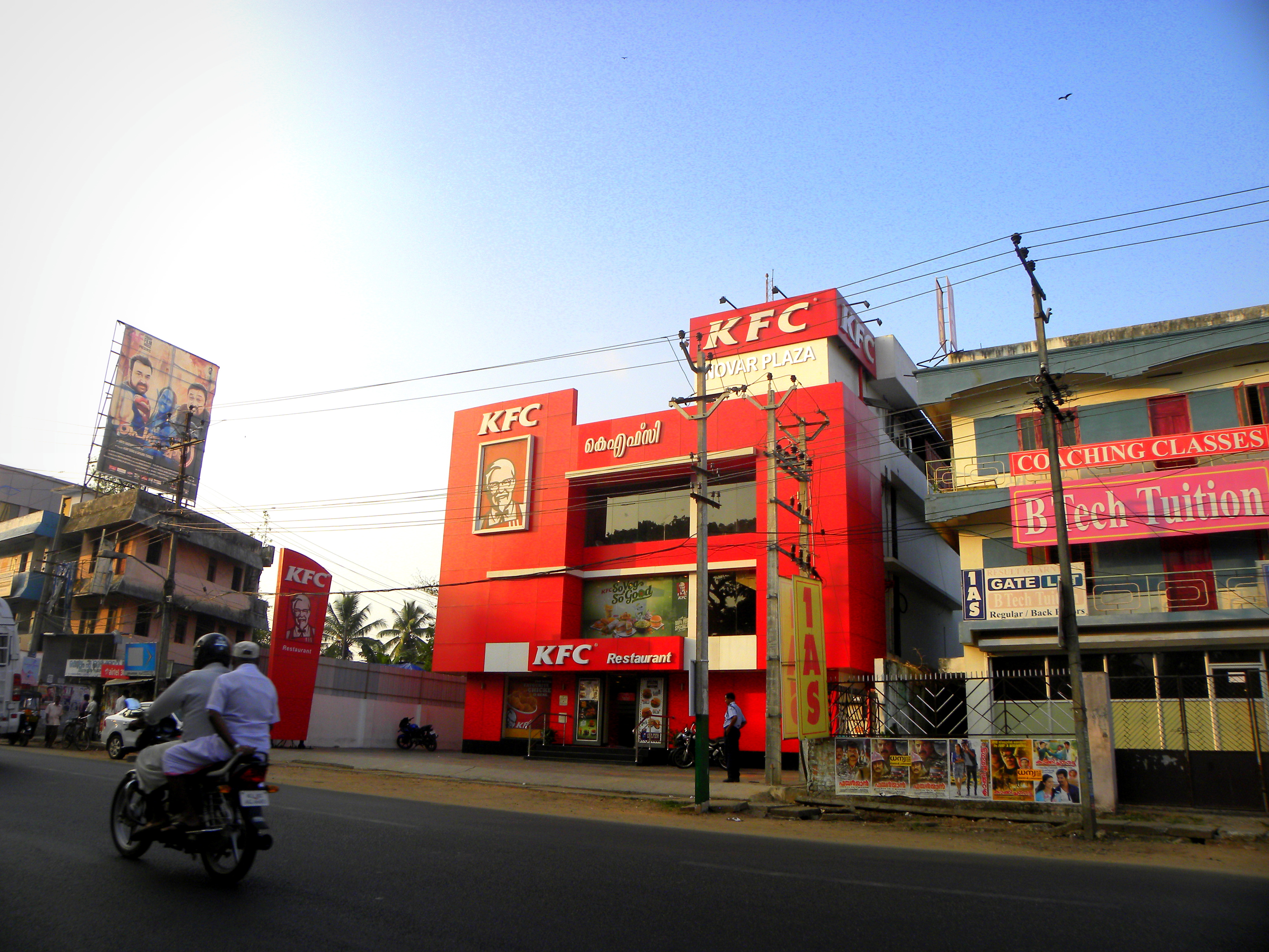 KFC Franchisee at Polayathode in Kollam city - This is the first KFC Franchisee in Kollam city and the largest one at Kerala state currently